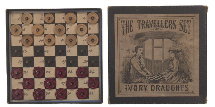 Game entitled The travellers set of ivory draughts; draughts are held in place by metal rods. Rd. no. 10419. 12 white and 12 red draughts. In the Johnson copy, the white squares are numbered in manuscript in ink. Slip case slightly damaged; Ivory draughts; Travellers set of ivory draughts